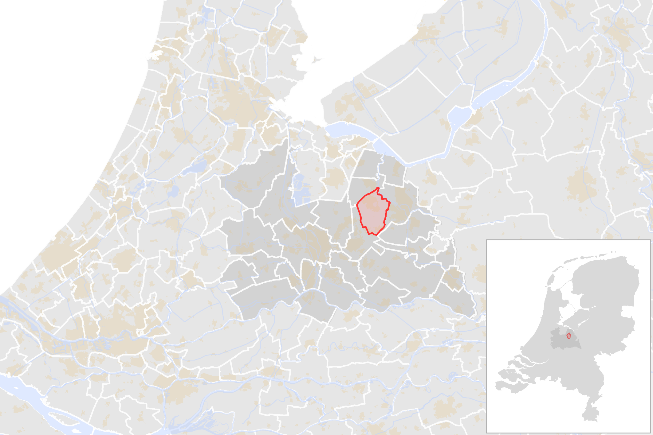 Locator map showing municipality boundary of one of the 390 Dutch municipalities (as of 2016)